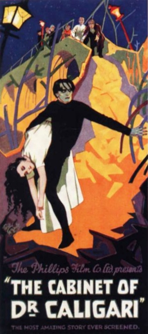 Poster for the film The Cabinet of Dr. Caligari.